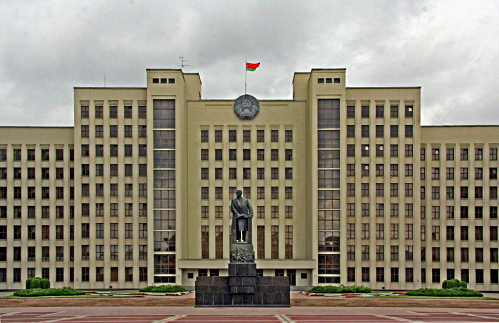 The House of Goverment, the residence of the House of Representatives of Belarus.